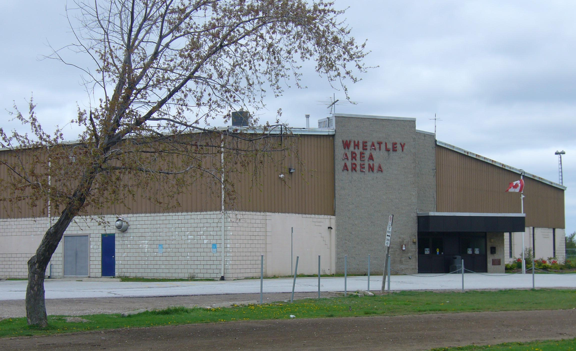 Wheatley Area Arena